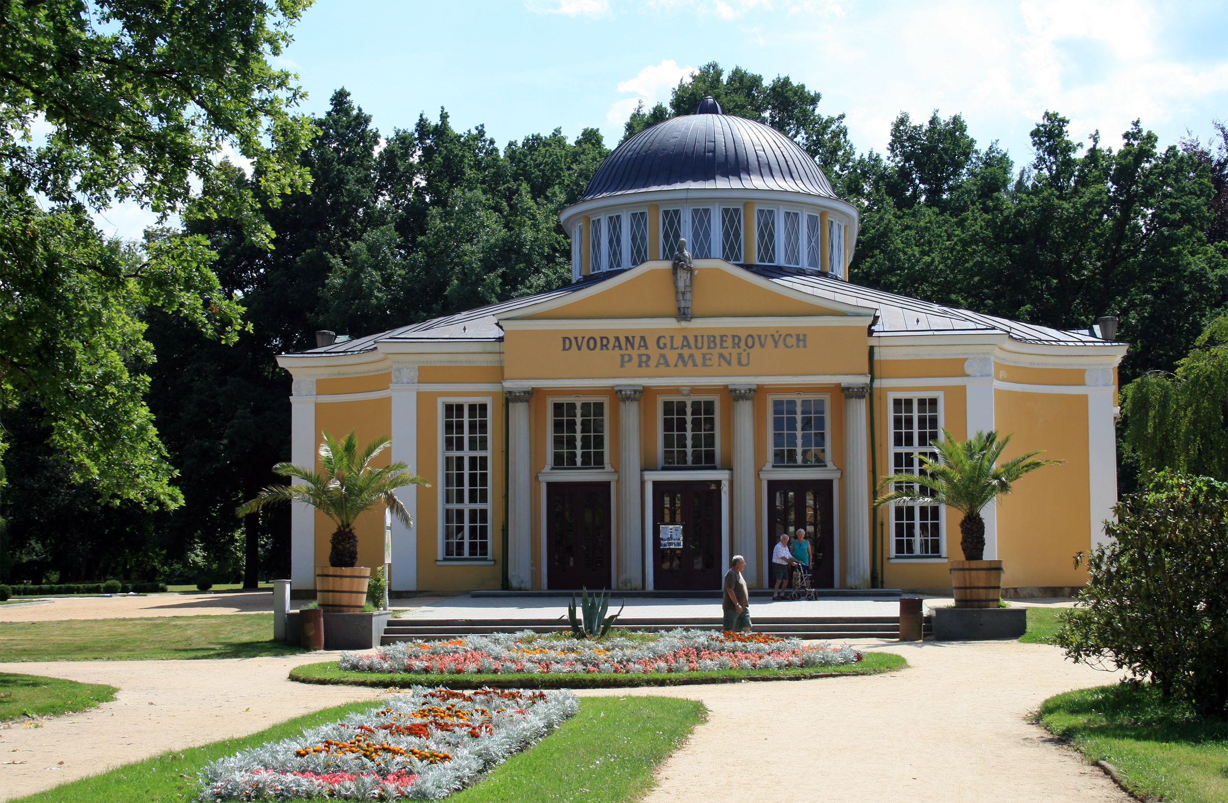 Building of Glauber Springs in Františkovy Lázně, west Bohemia Czech Republic